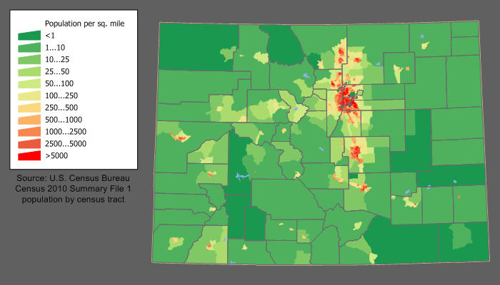 Category:U.S. State Population Maps Category:Colorado maps Category:Images of Colorado Colorado state population density map based on Census 2010 data. See the data lineage for a process description.